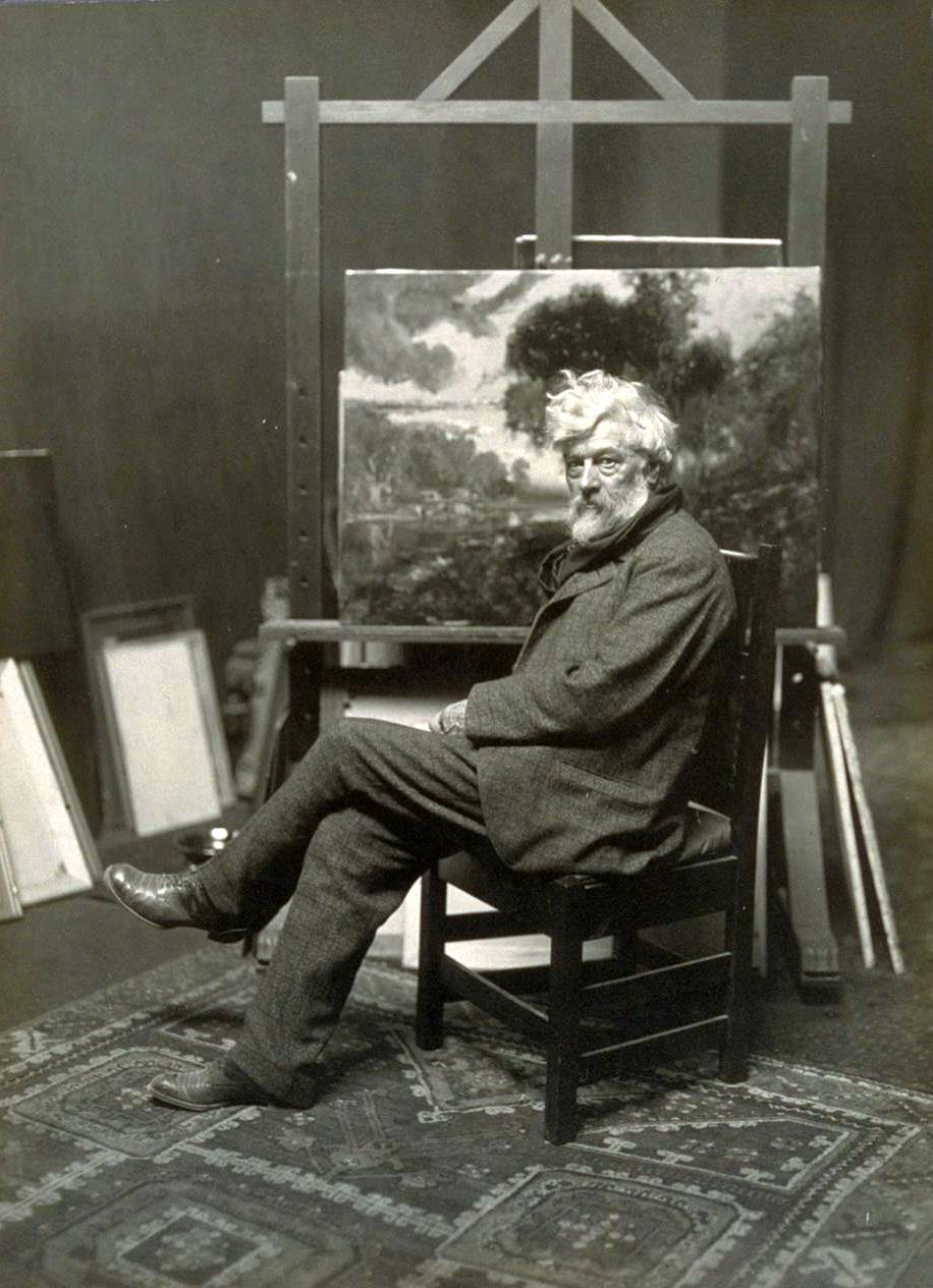 William Keith in studio